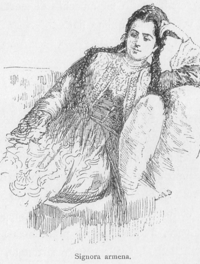 published 1878, drawing from a travellers guide. Constantinople(1878)